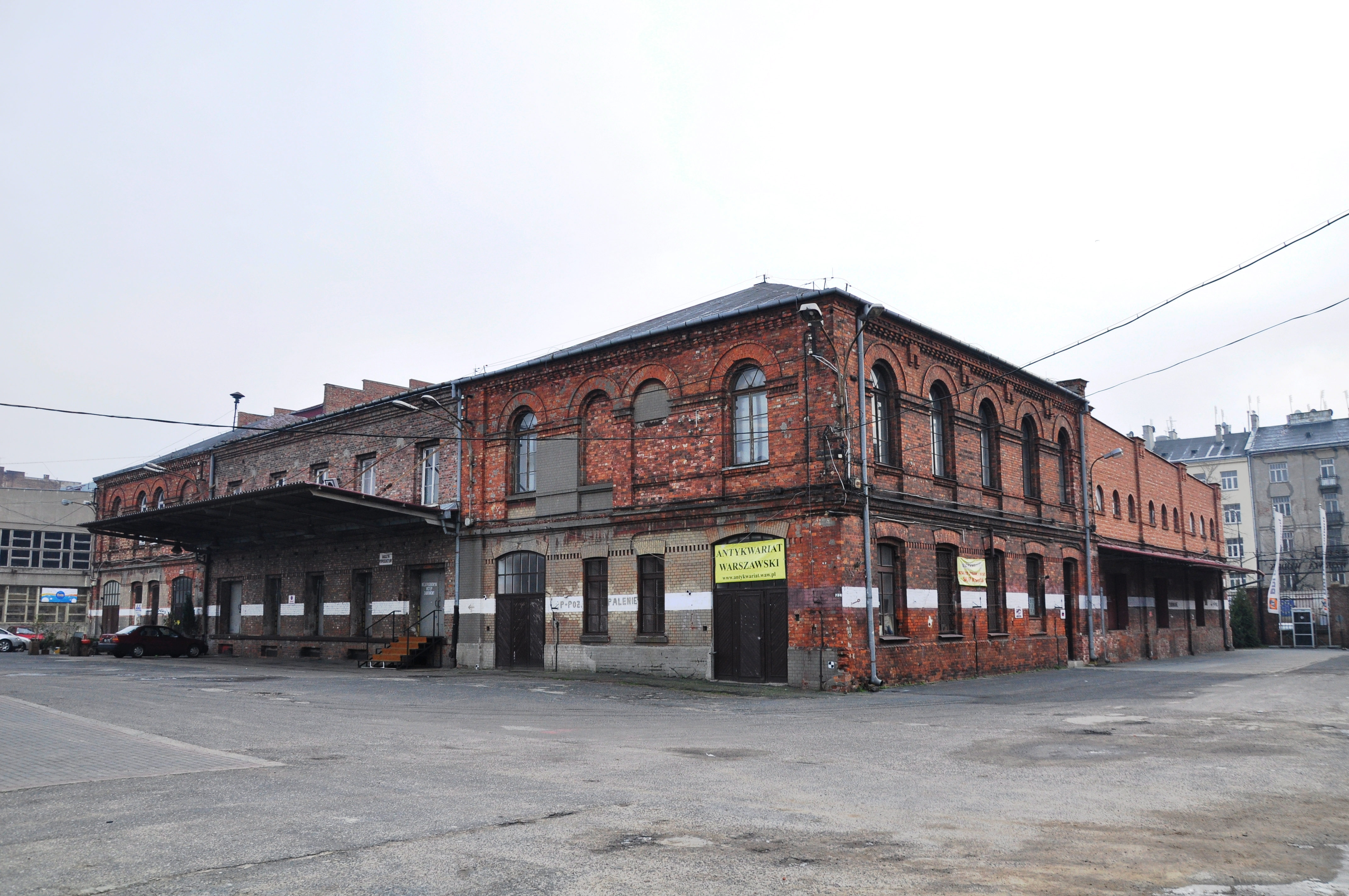 former wodka factory Koneser in Warsaw